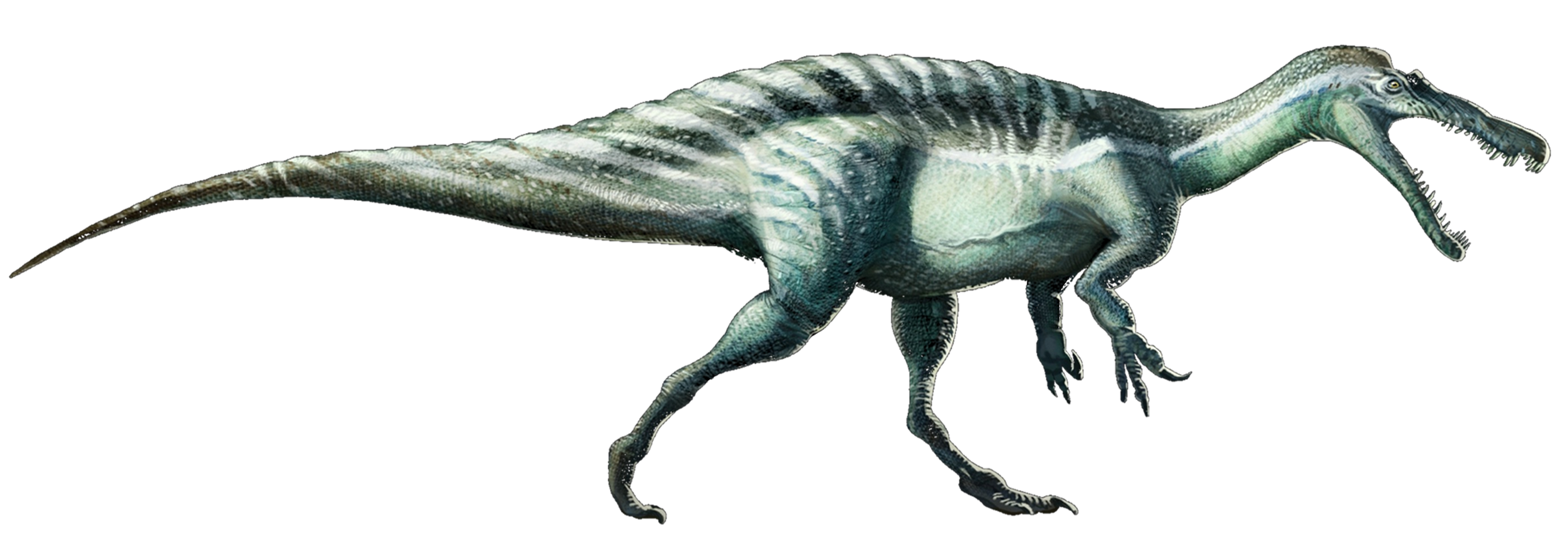 Life restoration of Suchomimus tenerensis based on Scott Hartman's skeletal[1] (flipped for use in cladograms and such.)